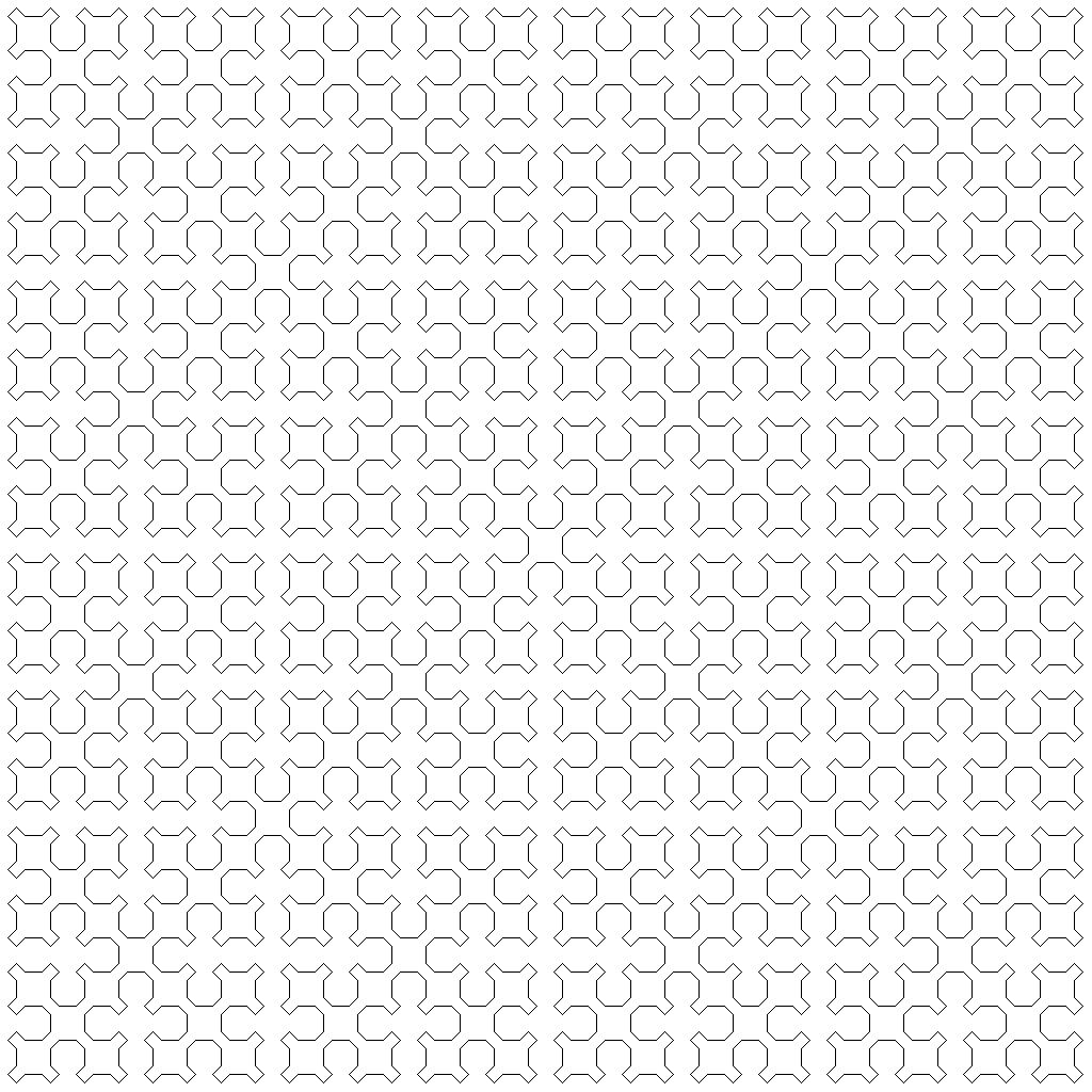 Sierpinski Curve L5